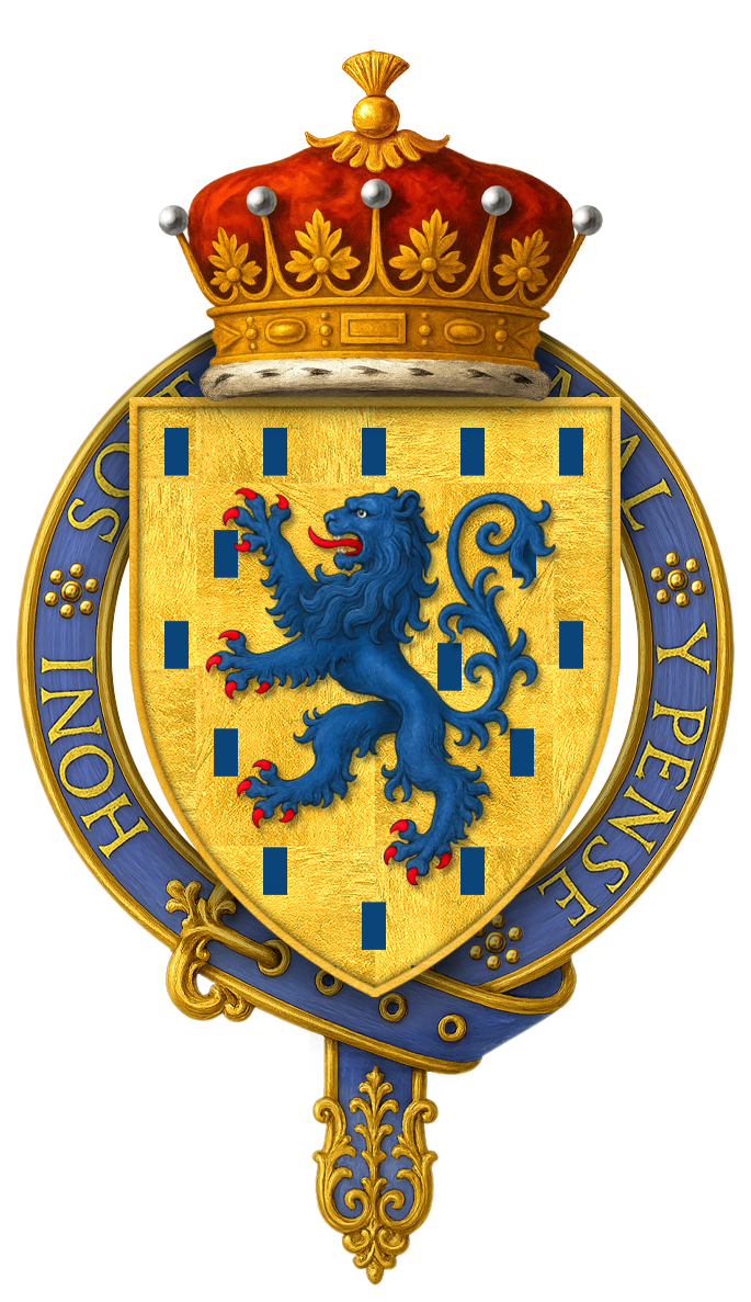 Coat of Arms of Sir Guichard d'Angle, Earl of Huntingdon, KG “Guichard d’Angle Earl of Huntingdon… Arms: Or, billet, a lion rampant Azure.” BELTZ, George Frederick, Memorials of the Order of the Garter from Its Foundation to the Present Time, London: William Pickering, 1841.